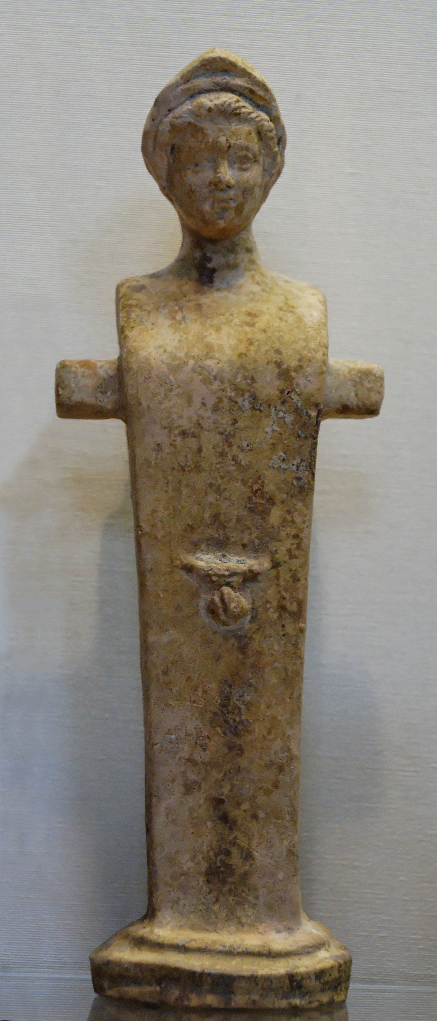 Herm pillar with Hermes, from the well of the "Dungeon" in Susa.